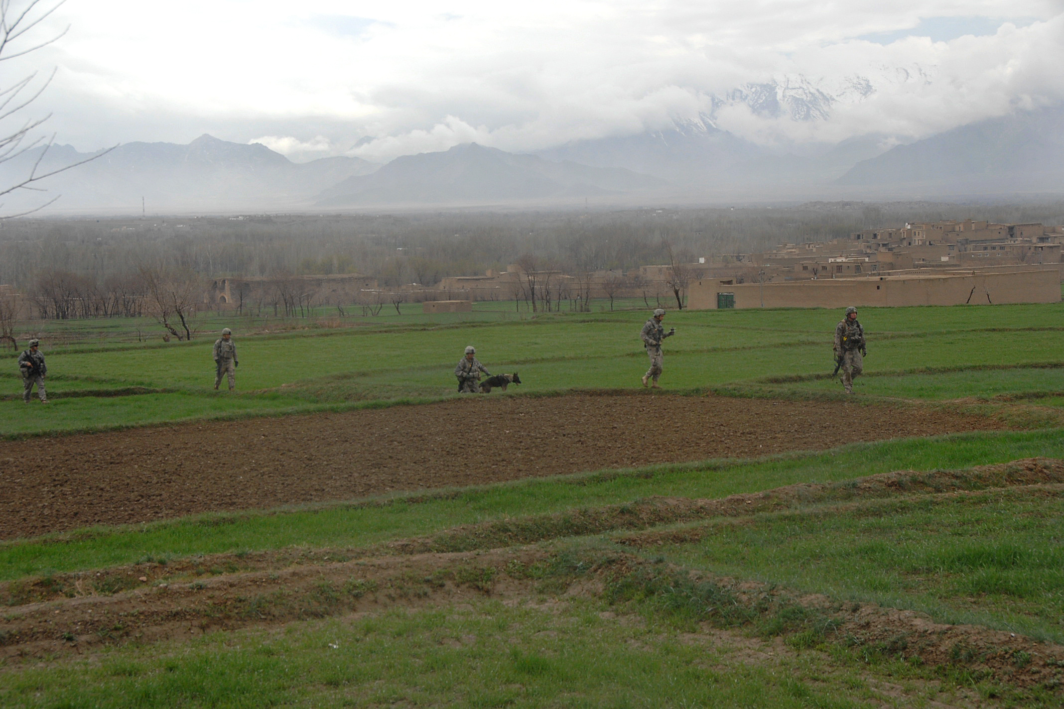 U.S. Army soldiers help a provincial mentorship team look for weapons caches near Baraki Barak in the Logar province, Afghanistan, March 26, 2009. The soldiers are assigned to the 3rd Battalion, 71st Cavalry Regiment, 3rd Brigade Combat Team, 10th Mountain Division.